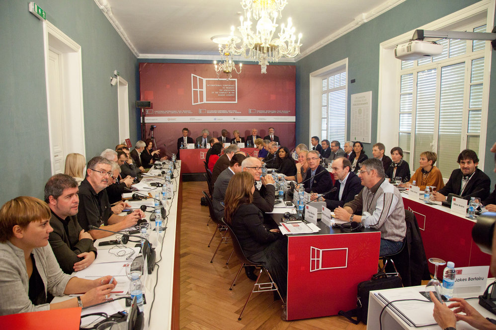 International Conference in the Basque CountryEuskara: 2011ko Donostiako Nazioarteko Bake Konferentzia